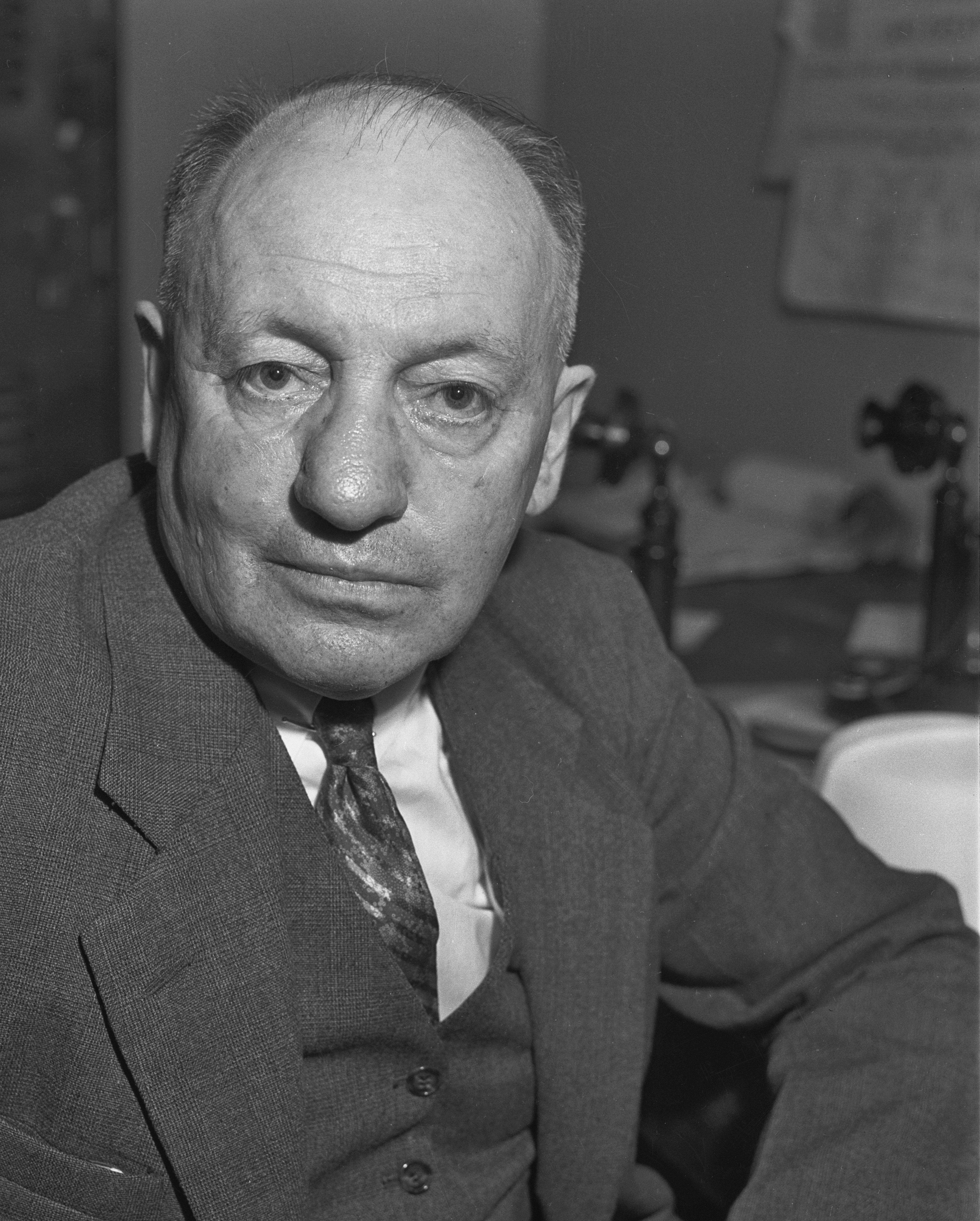 Portrait of Baird T. Spalding, lecturer and author.